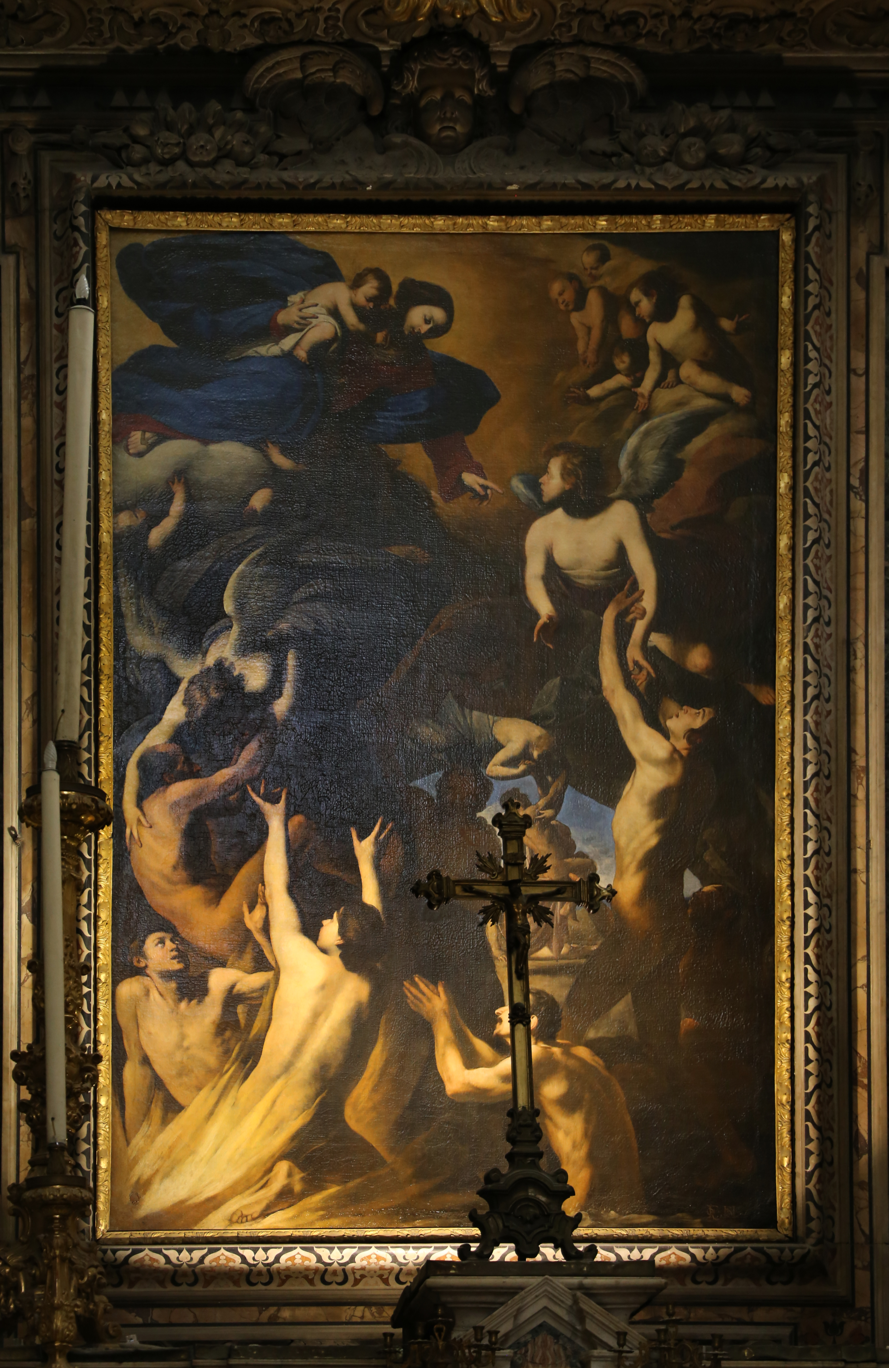 Santa Maria delle Anime del Purgatorio ad Arco - Interior